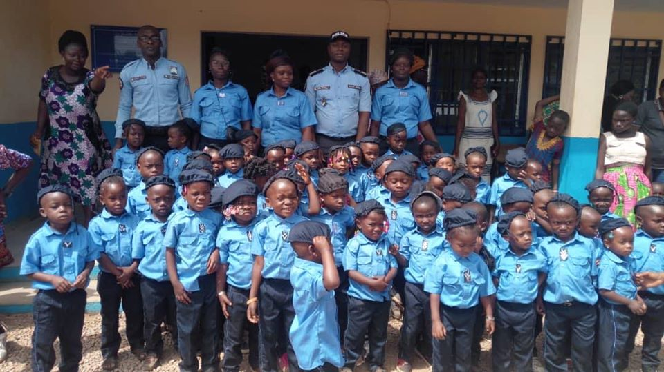 This is an image with the theme "Africa on the Move or Transport" from: Ivory Coast